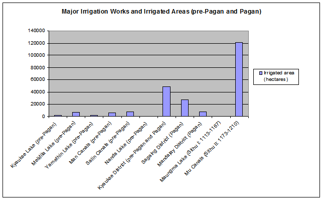 Major irrigation works and their irrigated land areas Data source: Pagan: The Origins of Modern Burma, 1985, by Michael Aung-Thwin, p. 191, Table 2: Major Irrigation Works; University of Hawaii Press.